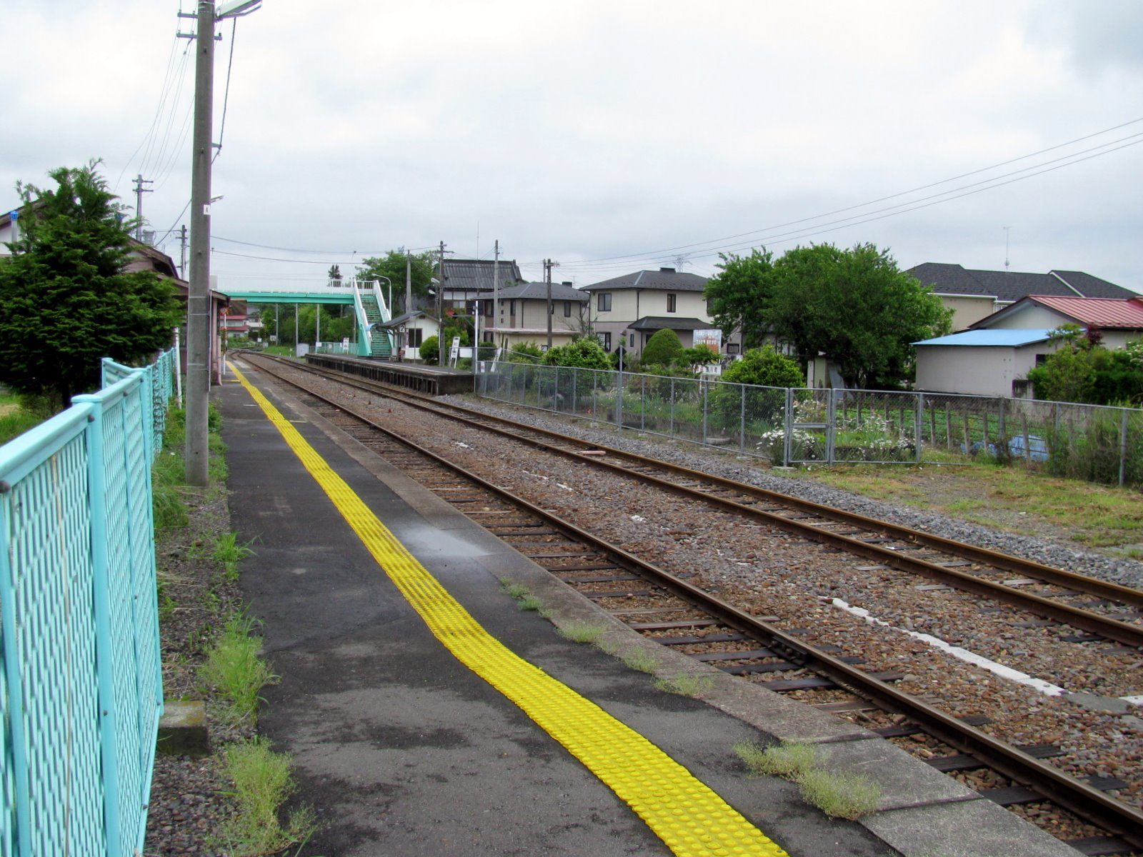 Iwaki-Asakawa Station on Suigun Line